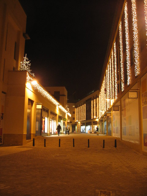 Christmas Lights in Livery street. This is the new shopping street that has been created by the redevelopment of the Regent Hotel and adjacent premises. This street only opened for business a couple of months ago and these are the first Christmas decorations here.